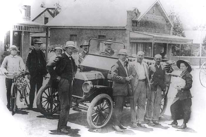 Gandhi with close friend Hermann Kallenbach, secretary Sonja Schlesin and others after his jail term in 1913